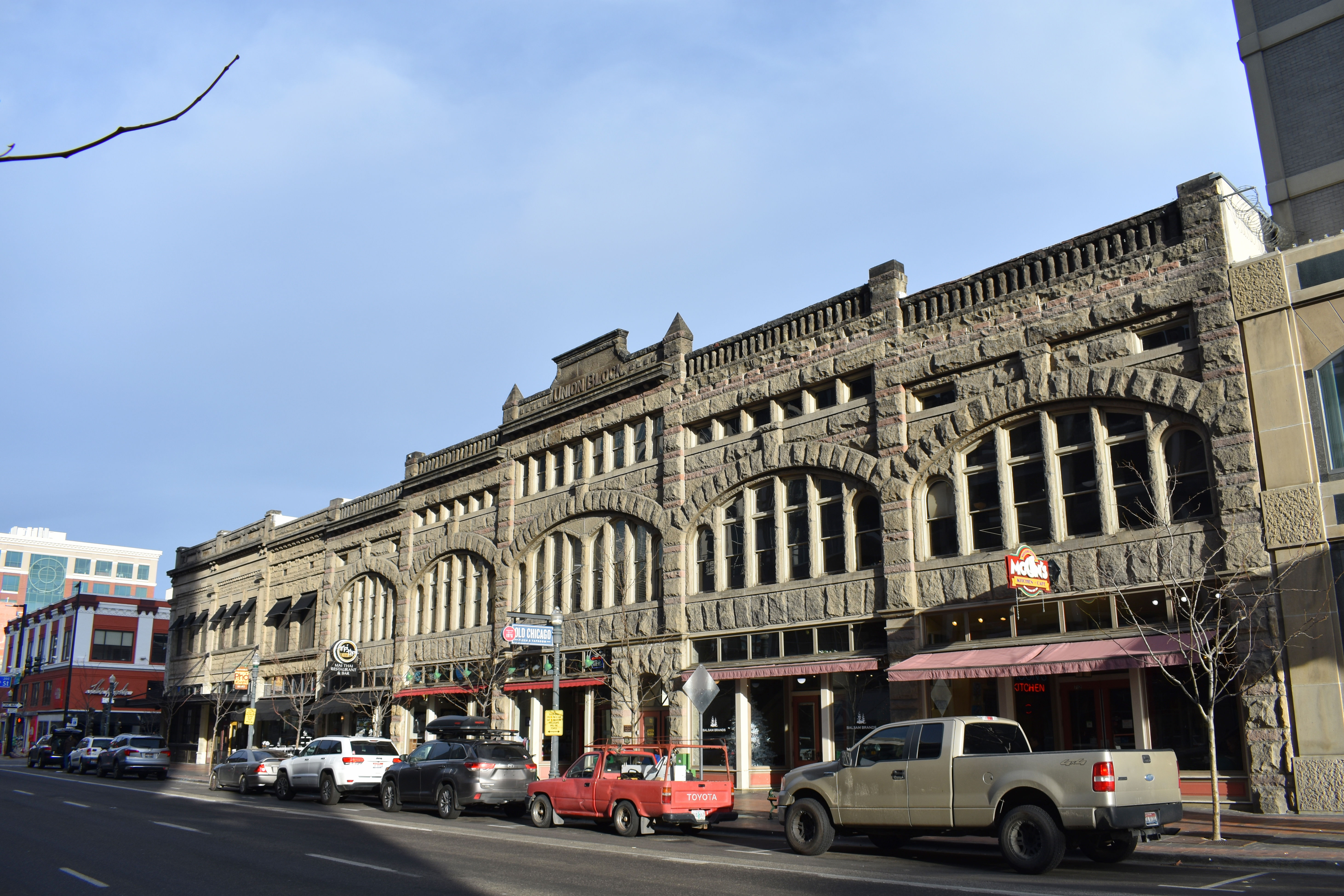 The Union Block and Montandon Building are listed on the National Register of Historic Places.